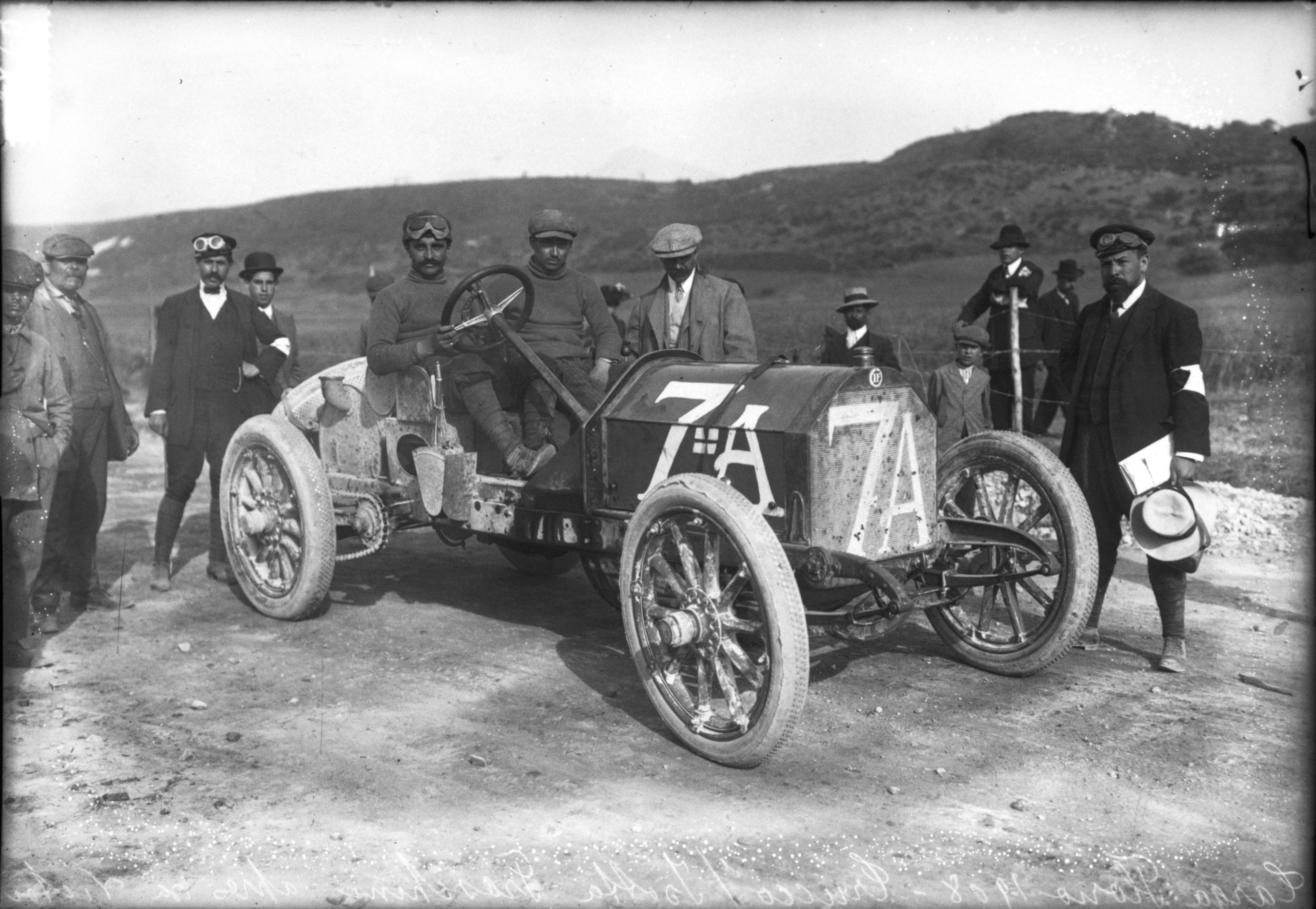 Vincenzo Trucco in his Isotta-Fraschini at the 1908 Targa Florio.